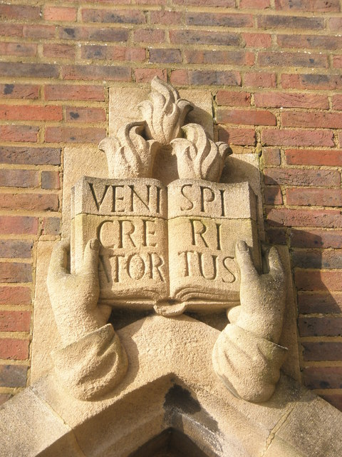 Stone carving over the cloisters at Guildford Cathedral, Surrey, with the Latin inscription Veni Creator Spiritus